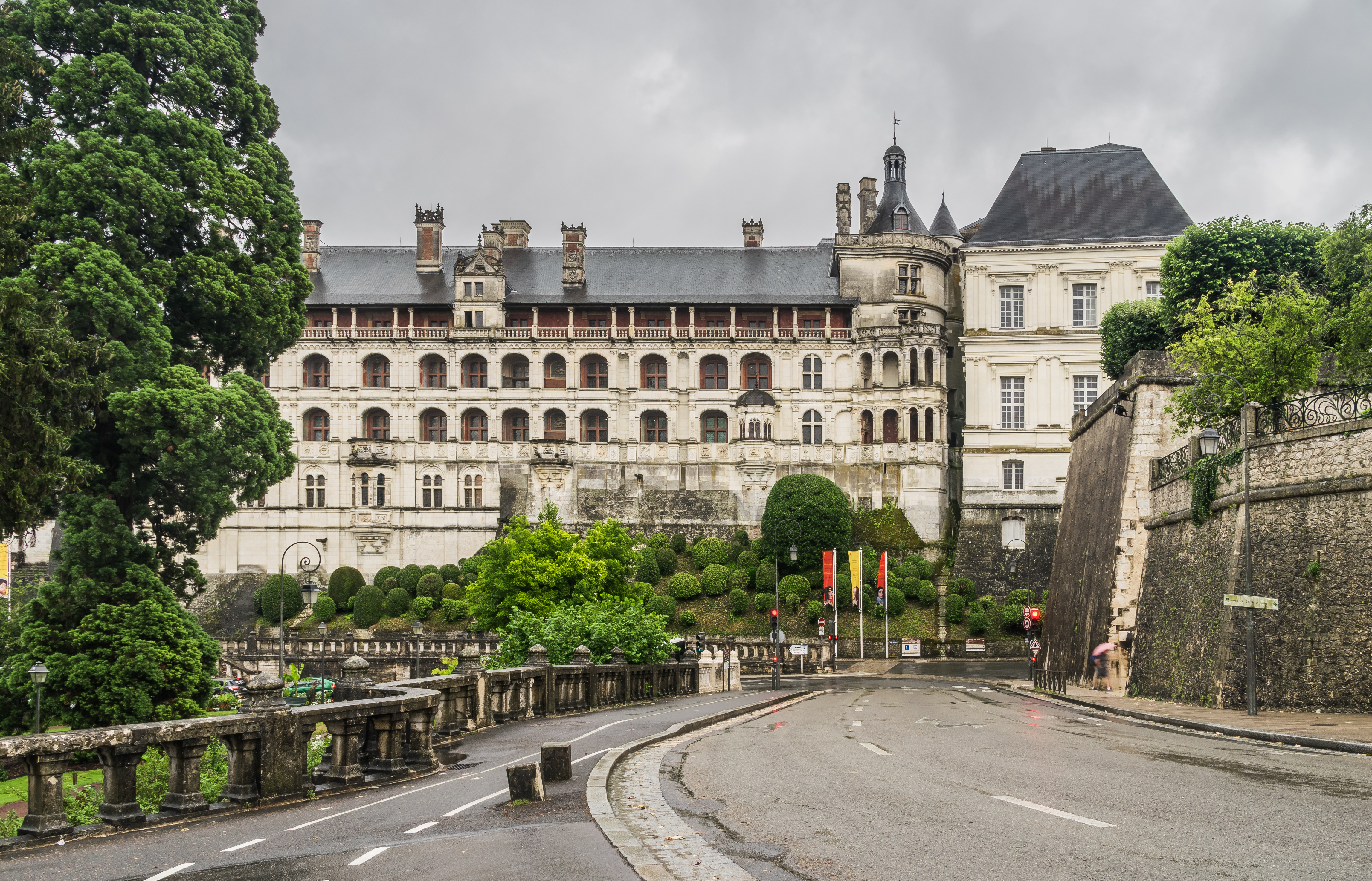 François I wing of the castle of Blois, Loir-et-Cher, France It is indexed in the Base Mérimée, a database of architectural heritage maintained by the French Ministry of Culture, under the references IA00141119 and PA00098337 .